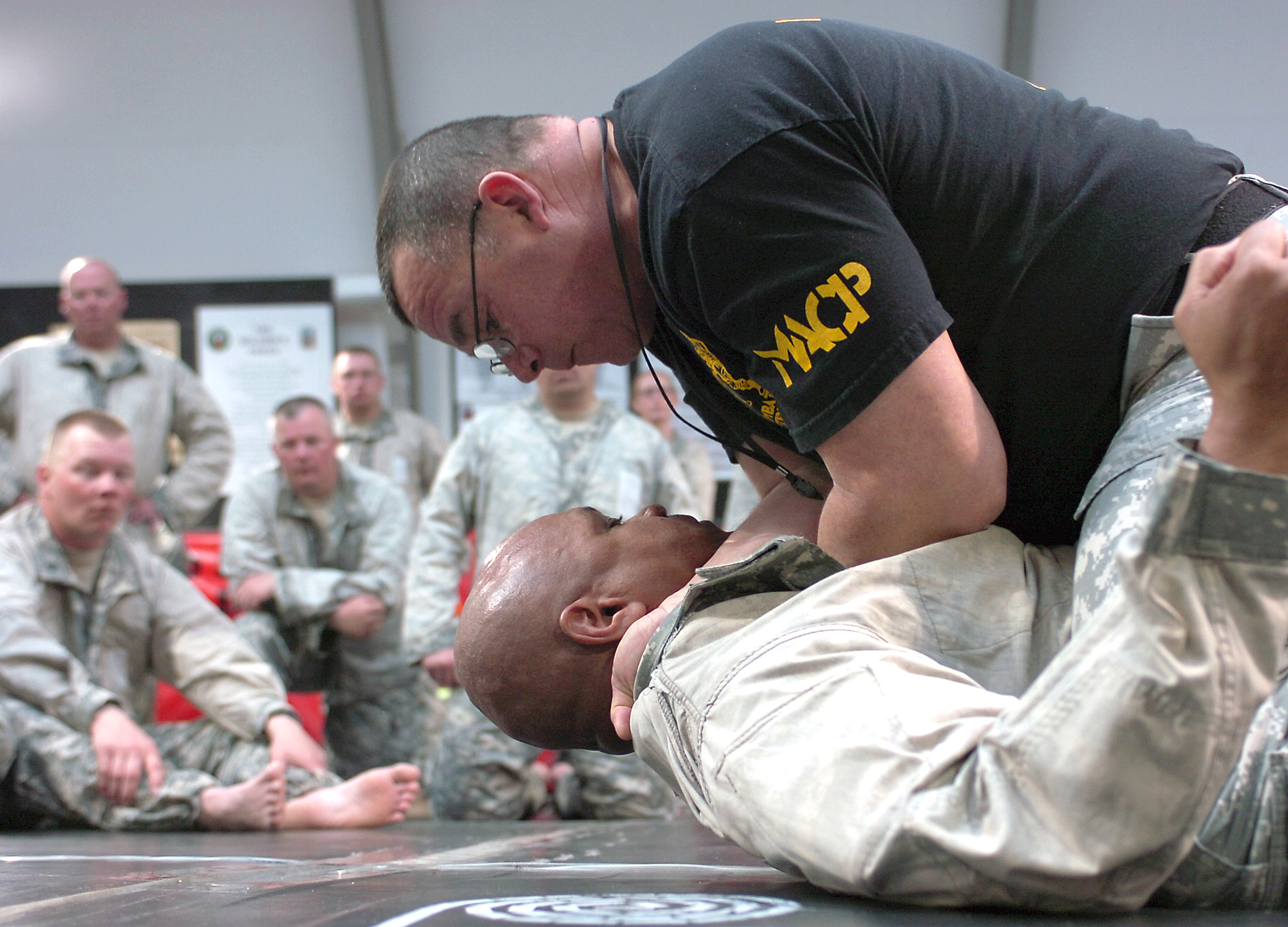 U.S. Army Staff Sgt. Richard Olmeda demonstrate how to employ a cross collar choke during an Army combatives training on Camp Atterbury, Ind., March 23, 2009. The deploying units training on Camp Atterbury are required to complete a basic combatives course before their overseas deployment.